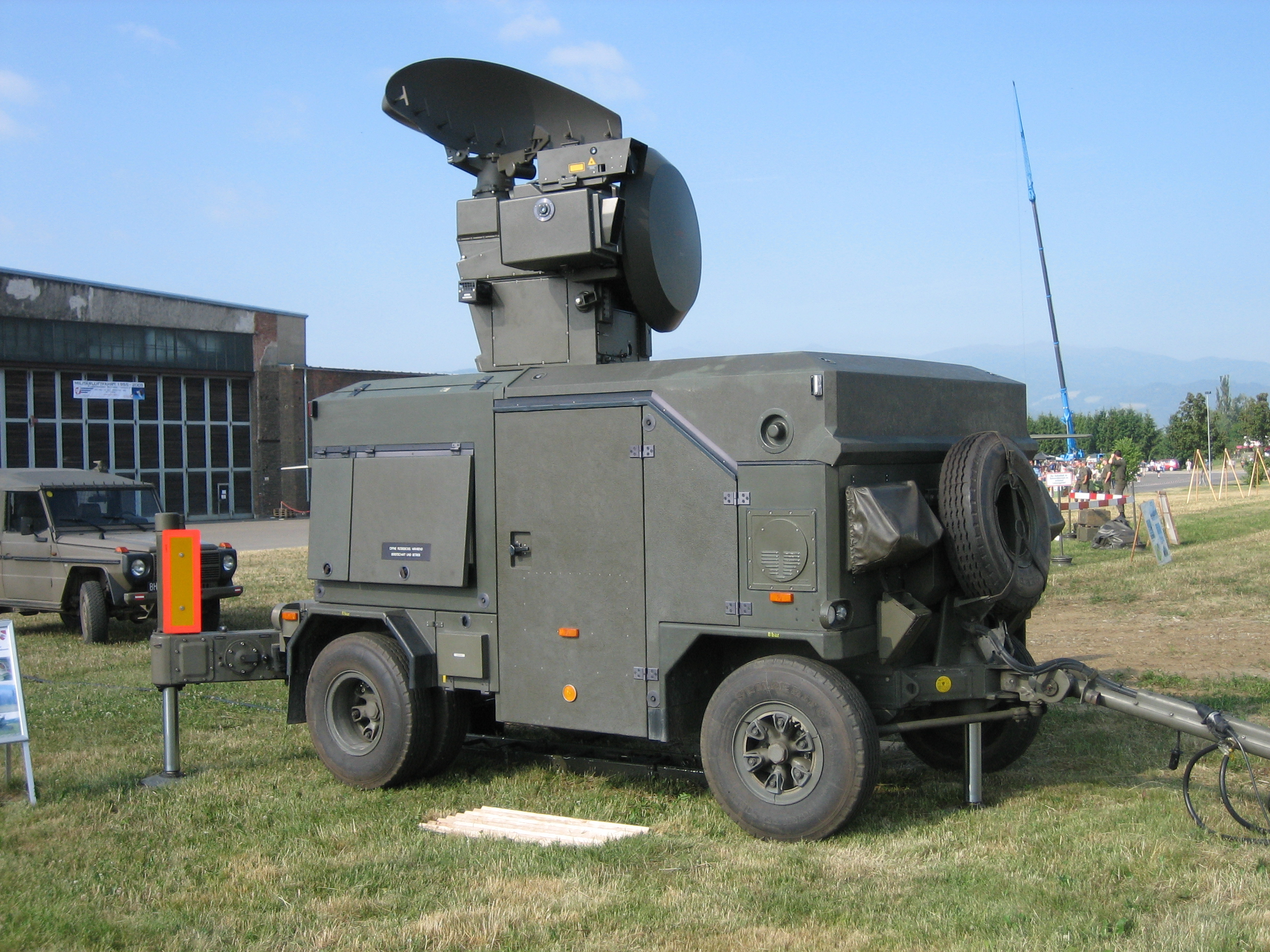 Oerlikon Contraves Skyguard. A towed anti-aircraft fire control system of the Austrian Air Force.